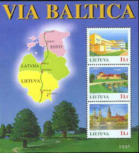 Souvenir sheet of Lithuania: Via Baltica - Parnu, Bauska, Kaunas